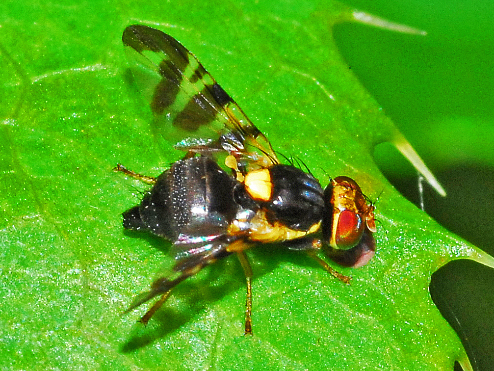 Rhagoletis cerasi. Fraisse, Turin, Italy